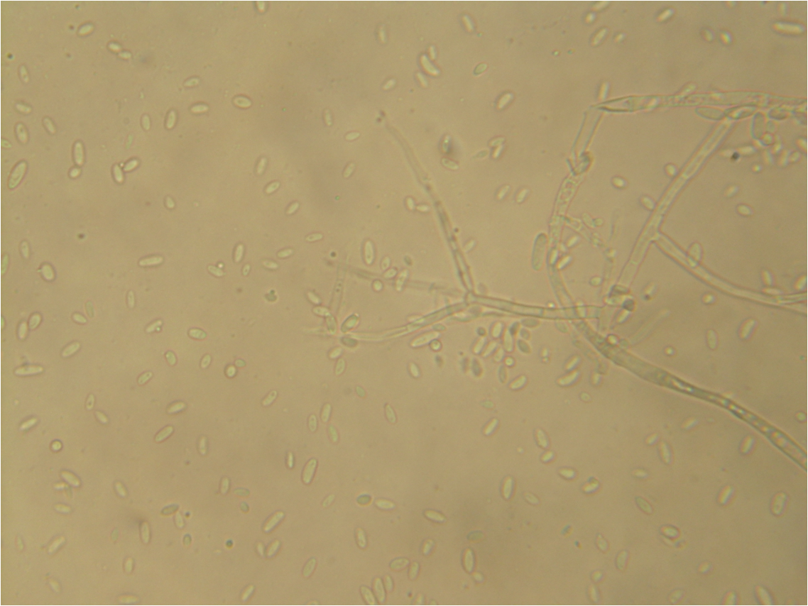 Verticillium spores magnified 160X. Identified using Barnett, H. L. & Hunter, B. B. (1998) Illustrated Genera of Imperfect Fungi. APS Press: St. Paul, MN; pp. 92–3 ISBN 0-89054-192-2. Recovered from Golden Delicious apple (Malus domestica Borkh. cv. "Golden Delicious"). Host status confirmed using Farr, D. F., Bills, G. F., Chamuris, G. P., & Rossman, A. Y. (1995) Fungi on Plants and Plant Products in the United States. APS Press: St. Paul, MN; pp. 469–73 ISBN 0-89054-099-3.